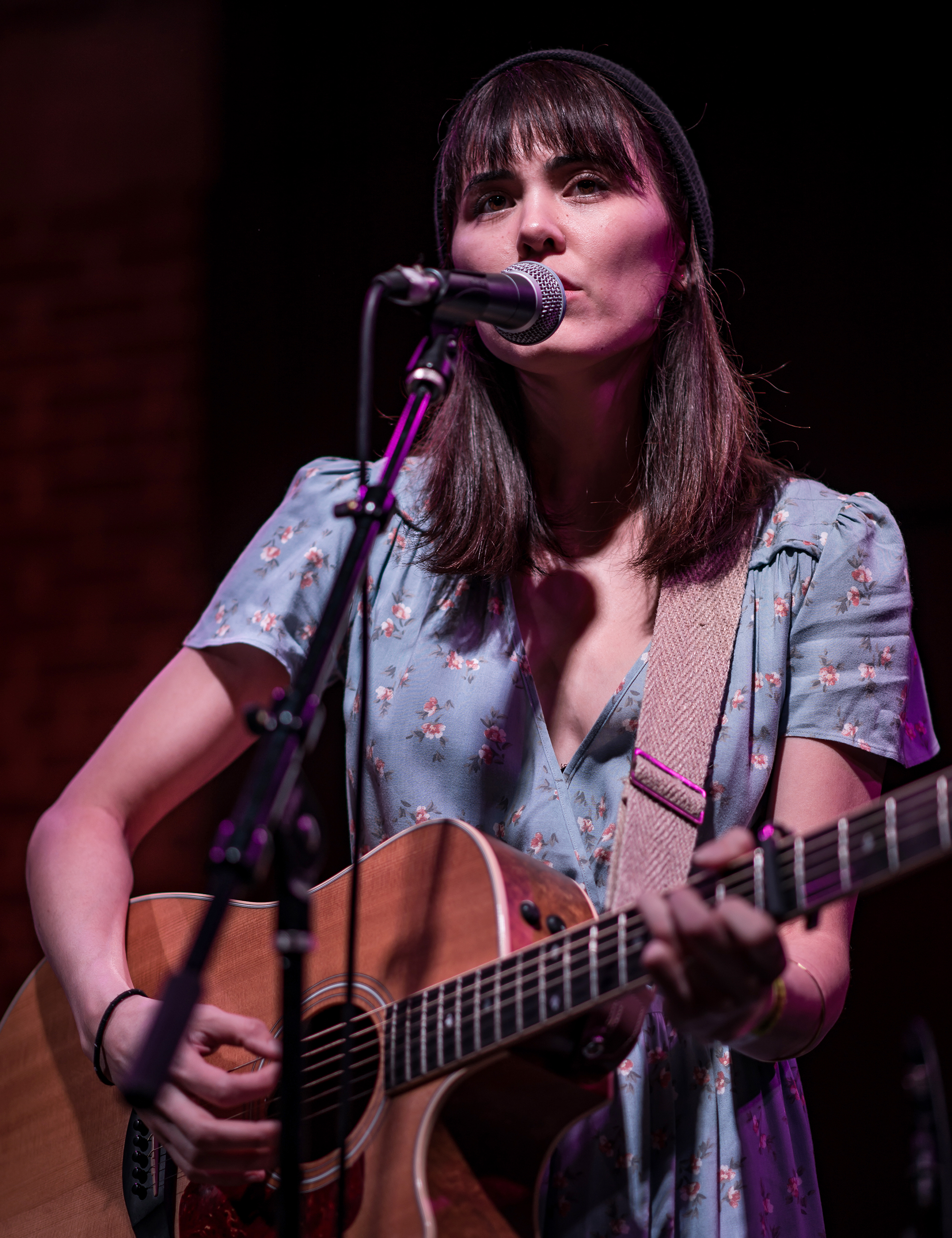 Priscilla Ahn performing at the Unsung Heros tribute, January 2017.